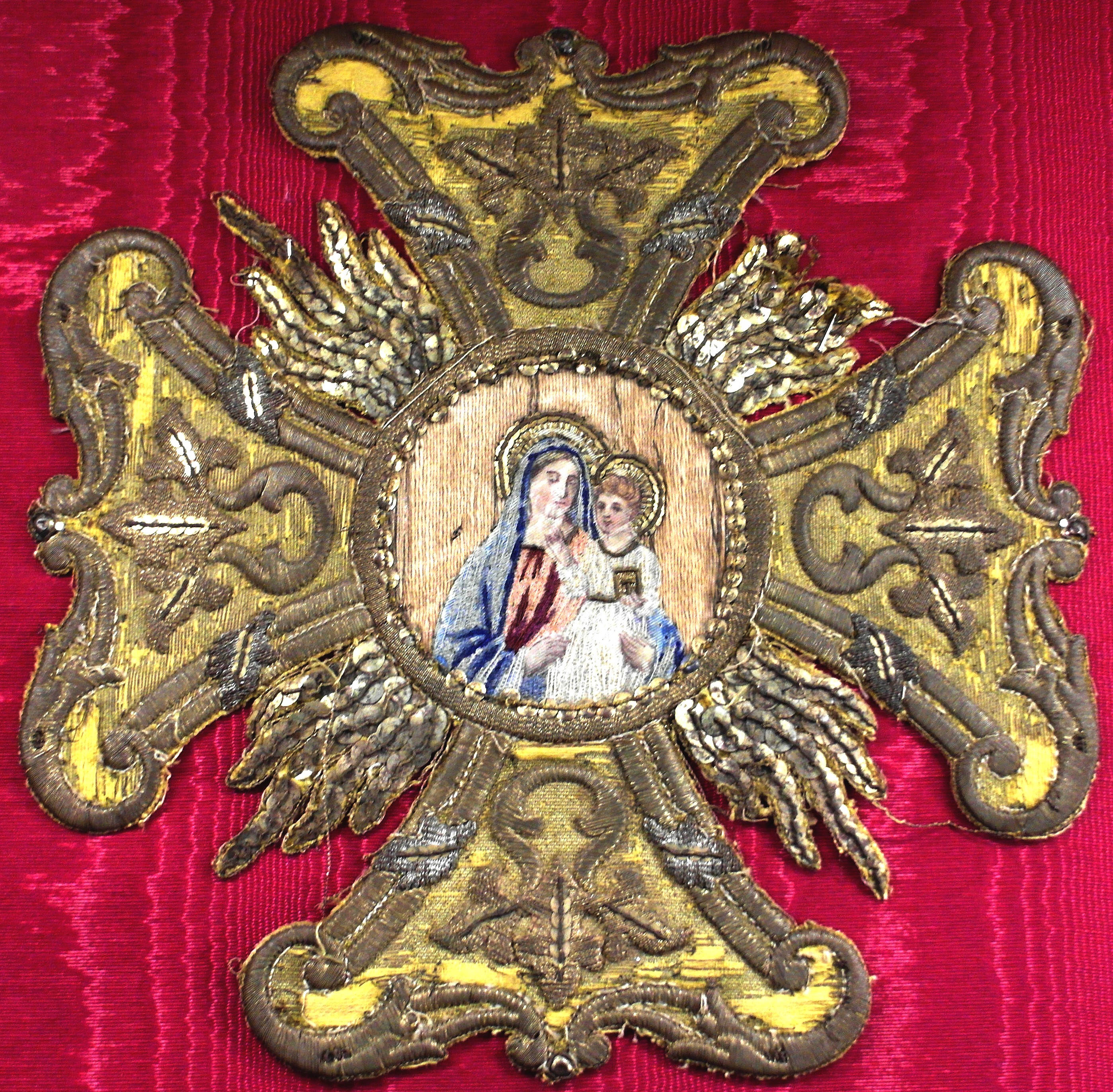 Cross of the Bar Confederation